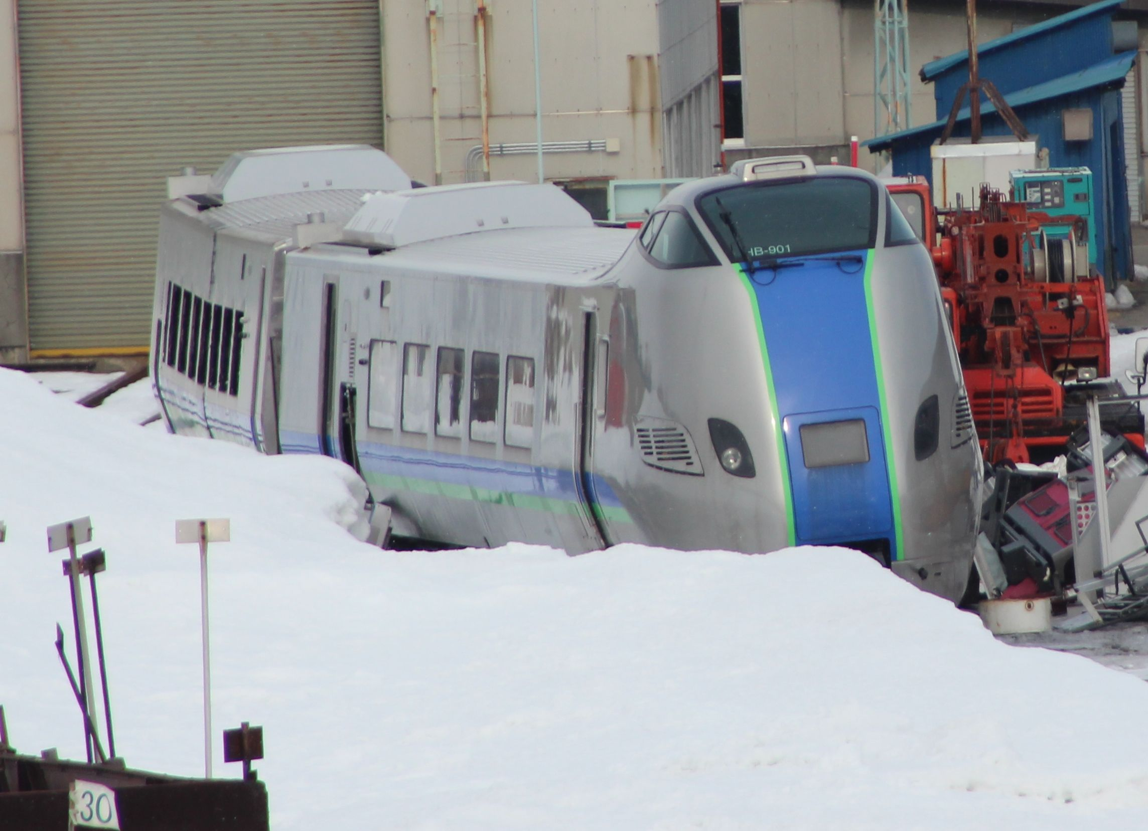 The experimental JR Hokkaido KiHa 285 series three-car DMU set at Naebo Works in the process of being cut up